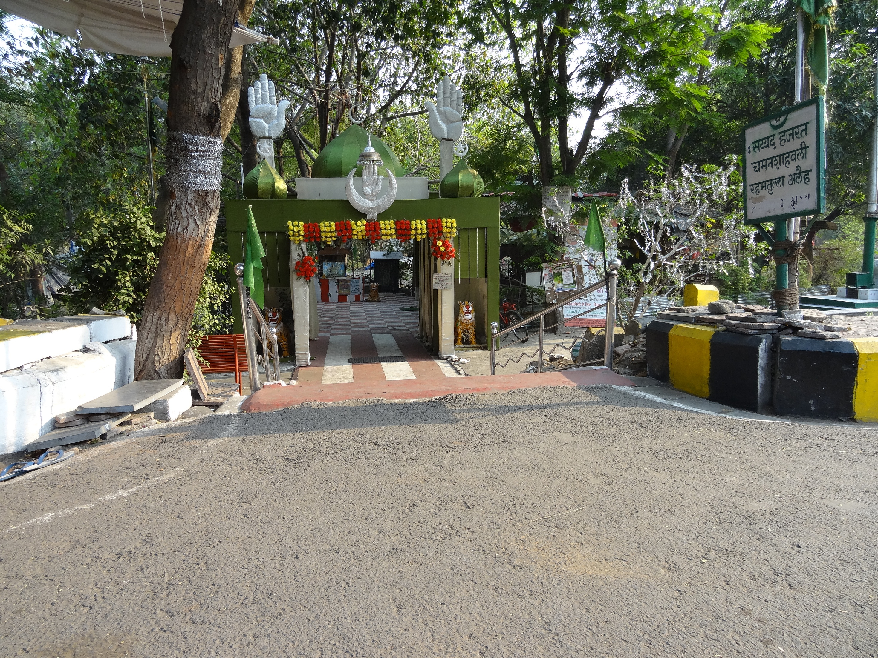 Dargah